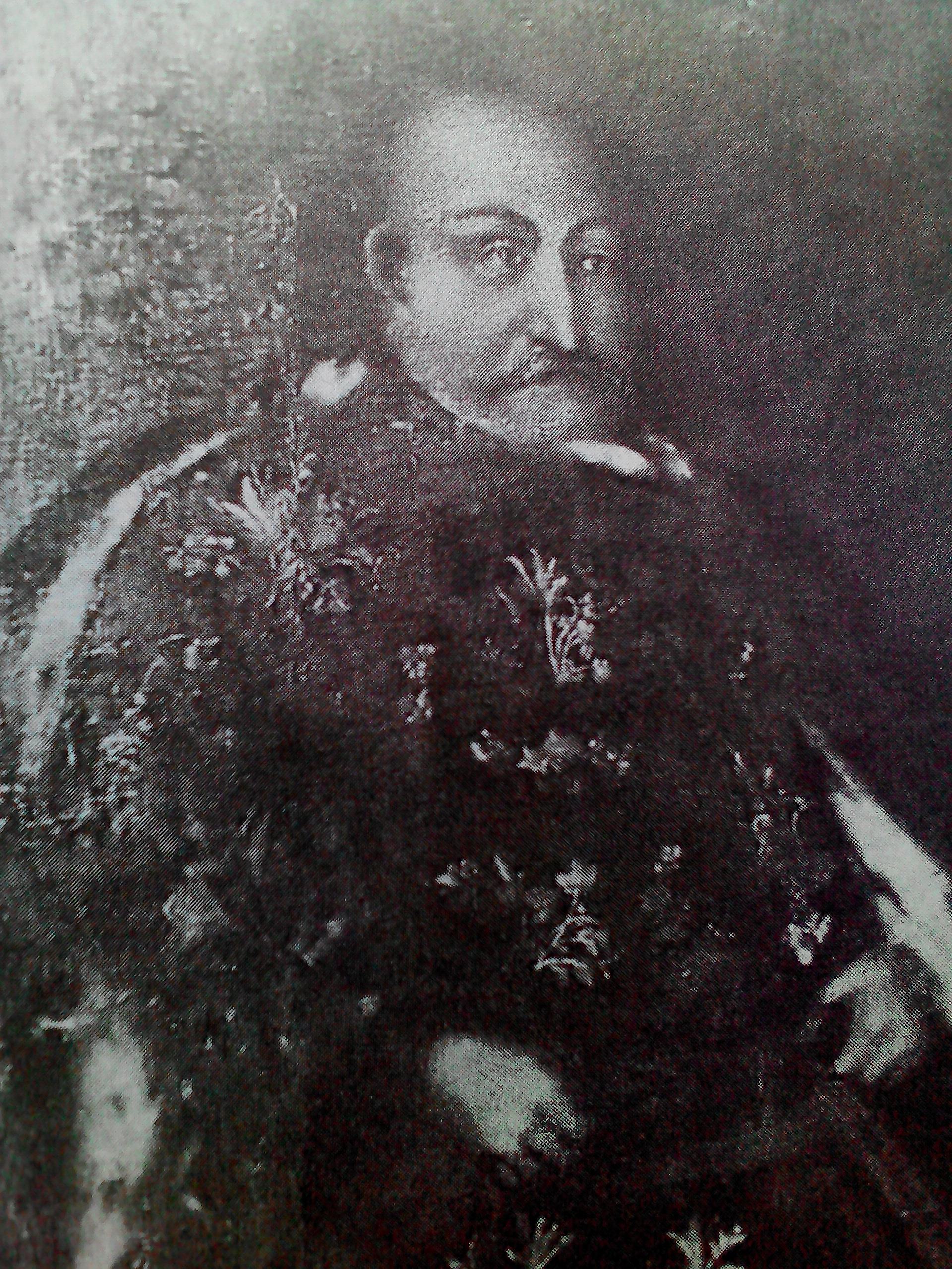 A photocopy of the illustration from the book "Ancient Manors of the Kharkov Province" (Lukomsky, 1917). The photo was taken in 1914. Lord-colonel of the Okhtyrka Cossack Regiment Osipov (? -1694-1711). Also in 1711 the brigadier of the Sloboda Cossack regiments.